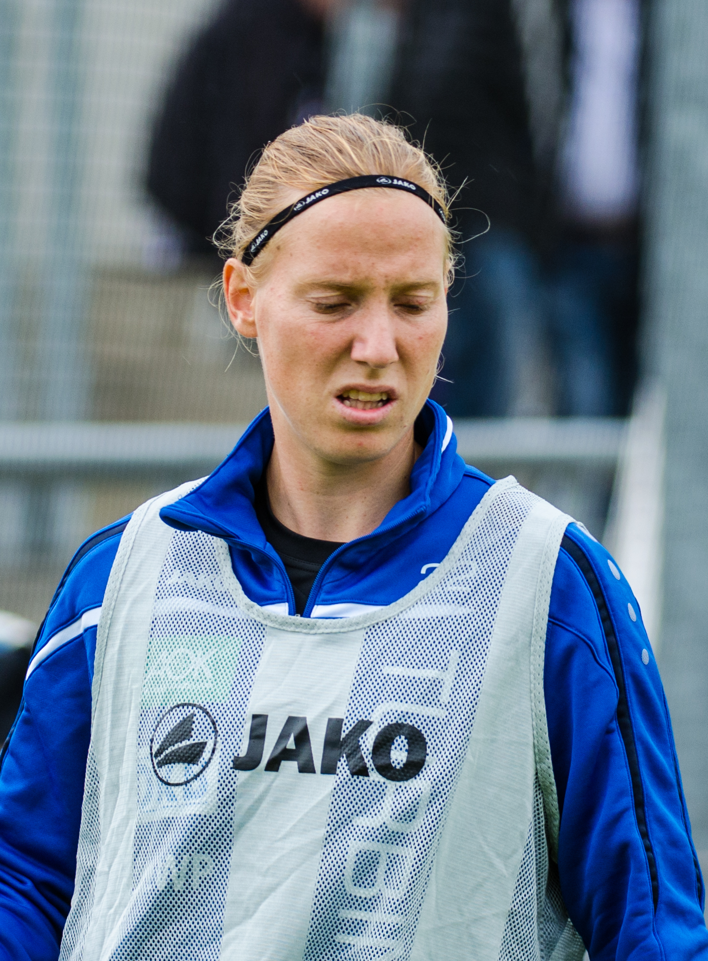 Match of the German Women's Football Bundesliga between 1.FFC Frankfurt and 1. FFC Turbine Potsdam, 2015-09-13